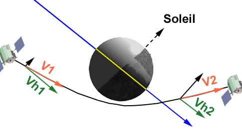 Gravity assist